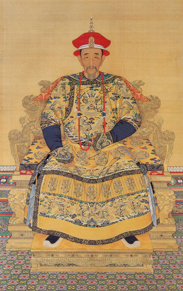 Portrait of the Kangxi Emperor in Court Dress